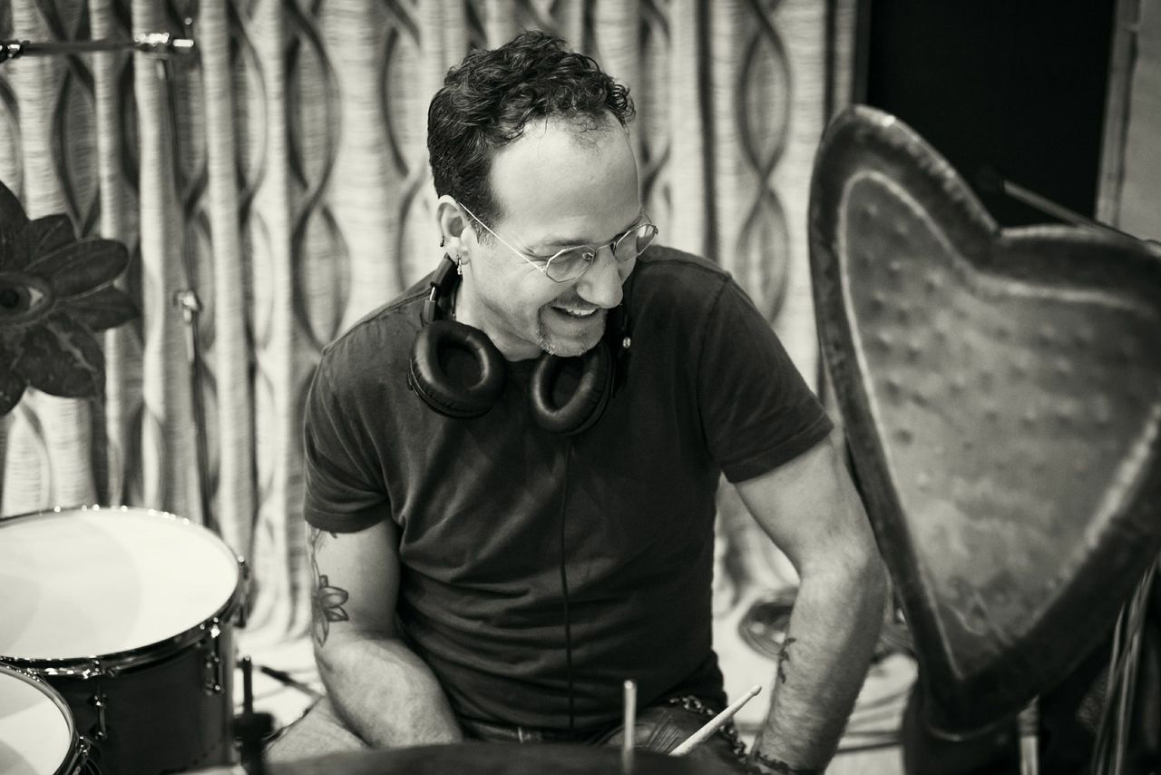 Scott Amendola at Fantasy Studios during the "Fade To Orange" sessions, September, 2014. Photo by Lenny Gonzalez